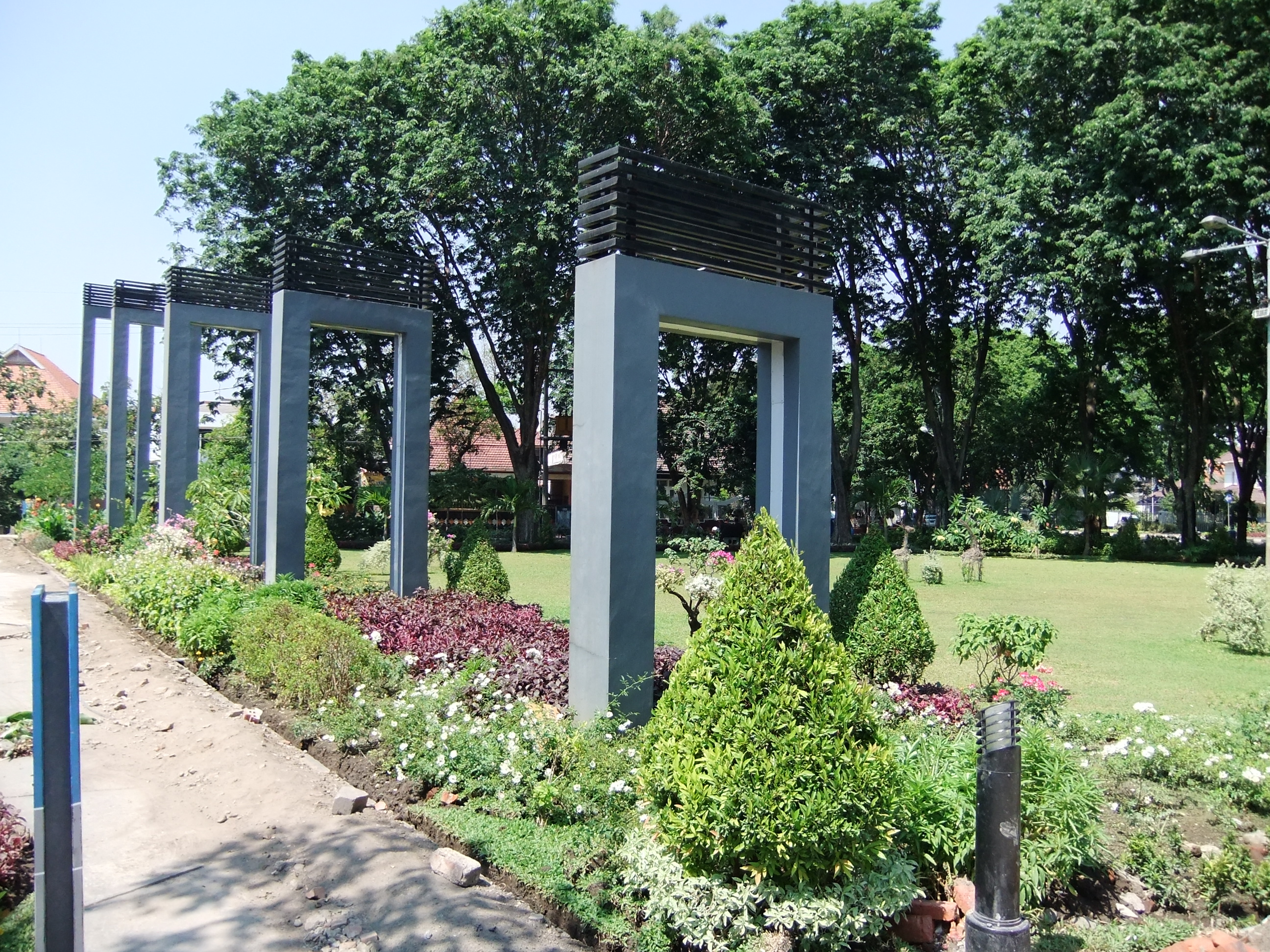 Bungkul Park, Surabaya